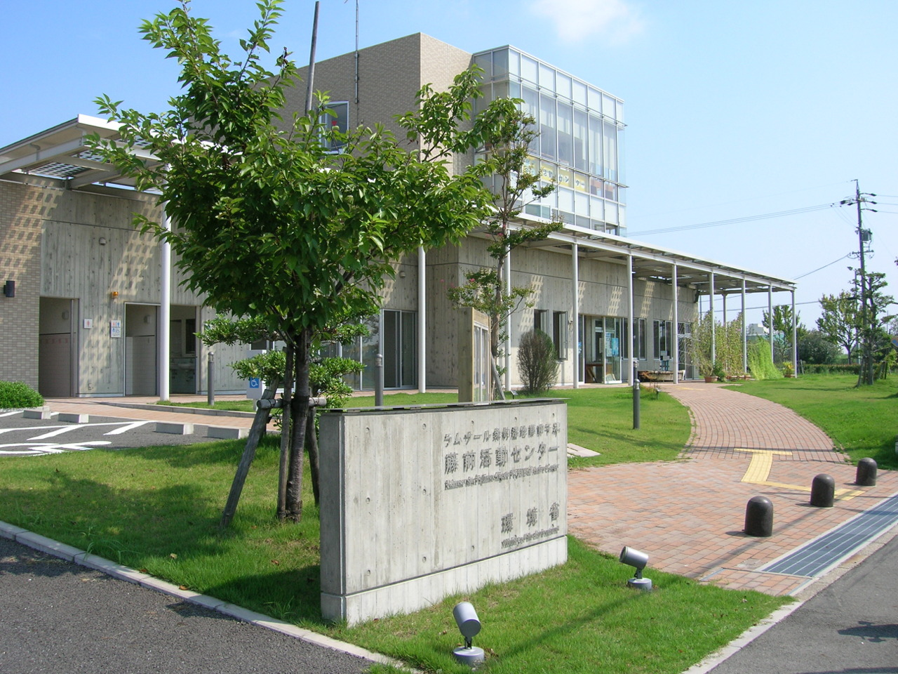 Ramsar site Fujimae-higata flats FUJIMAE Activity Center. Ministry of the Environment. Loc: Minato-ku, Nagoya city, Aichi Prefecture, Japan. 環境省 ラムサール条約湿地藤前干潟・藤前活動センター 撮影場所 愛知県名古屋市港区